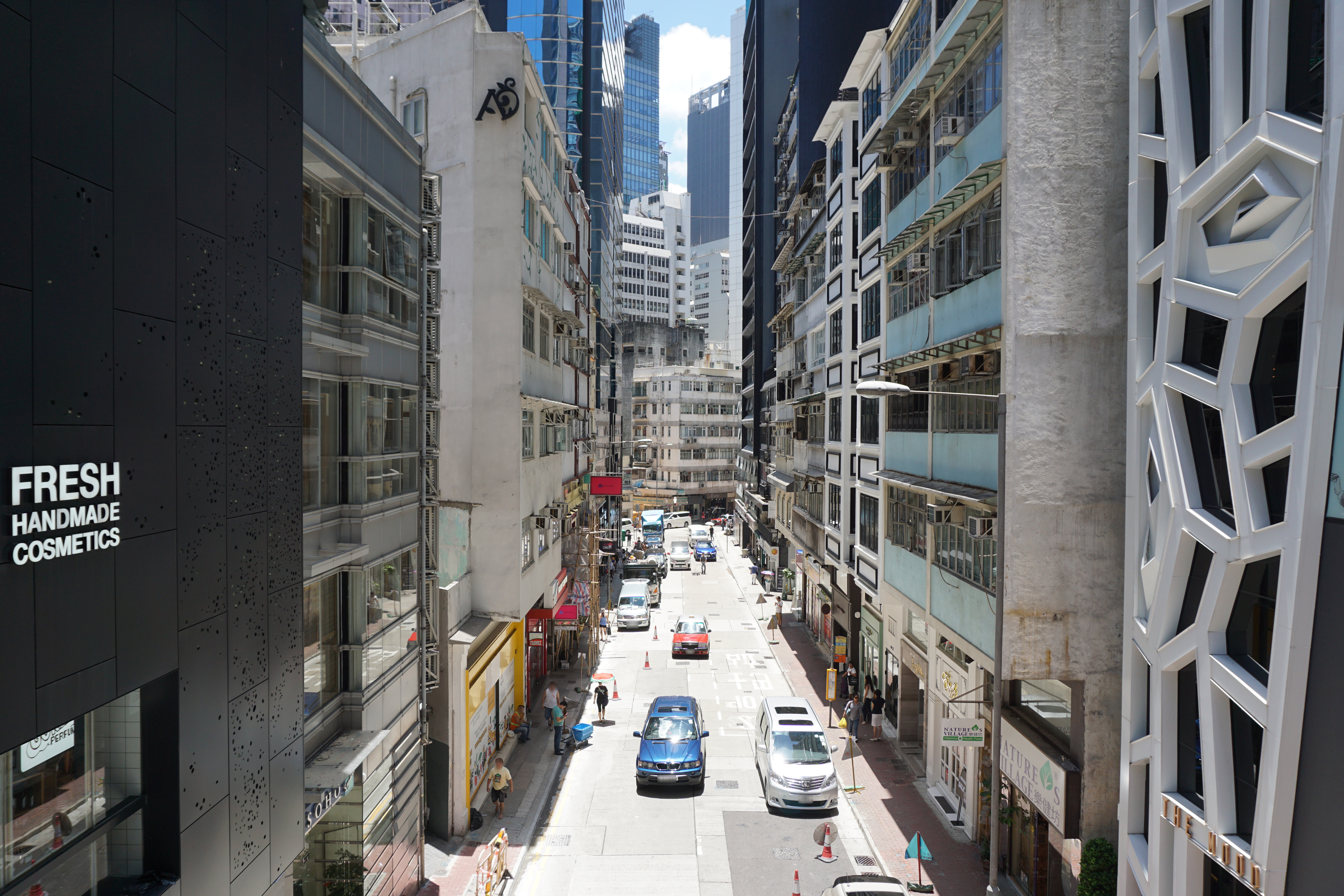 Lyndhurst Terrace in Central, Hong Kong.